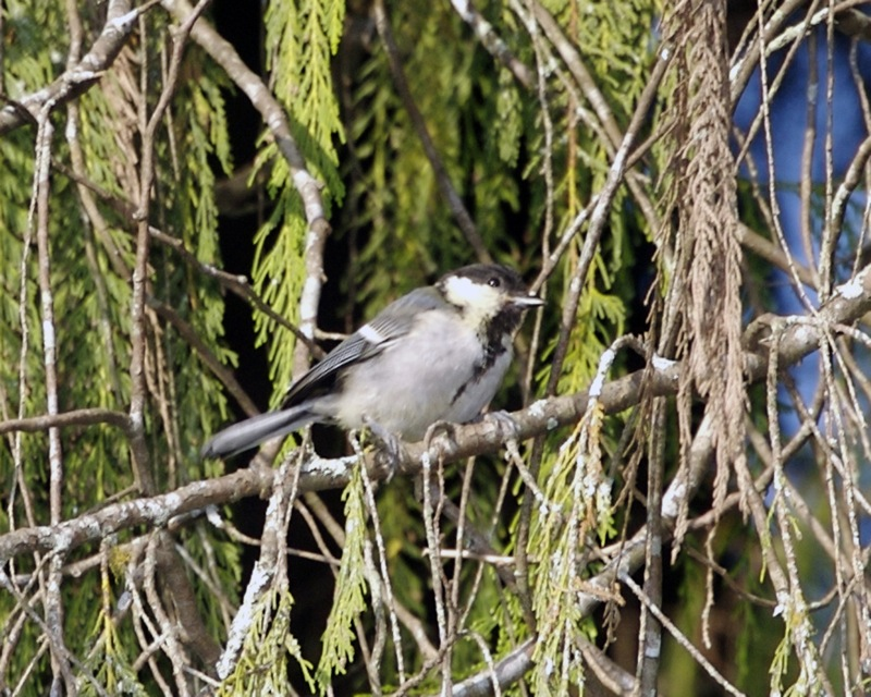 Cinereous Tit Parus cinereus, nominate subspecies P. c. cinereus. Location: Cibodas, Java, Indonesia. 27 August 2006.